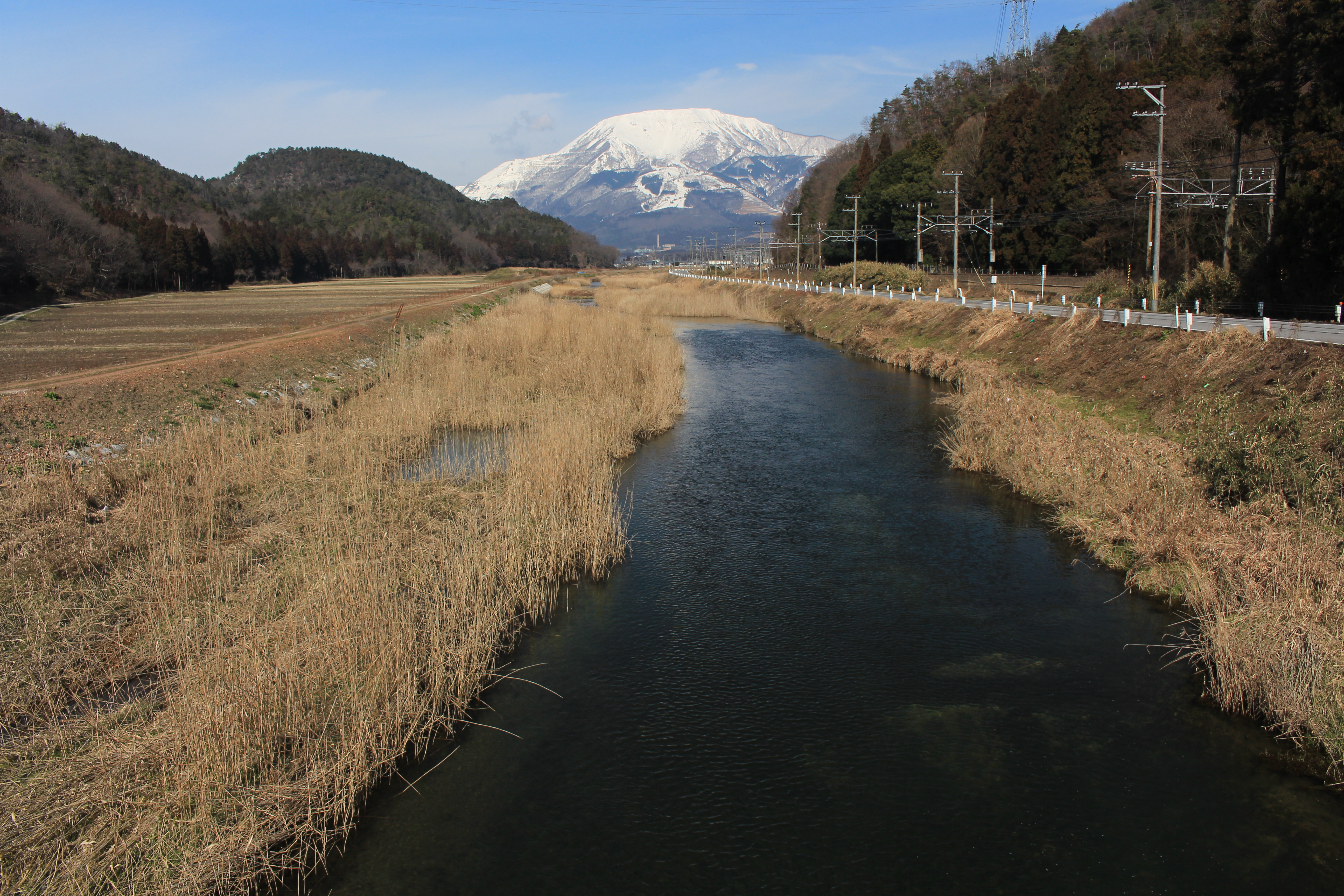 Amano River, Mount Ibuki and Shiga prefectural road 248 in Maibara, Shiga prefecture, Japan.